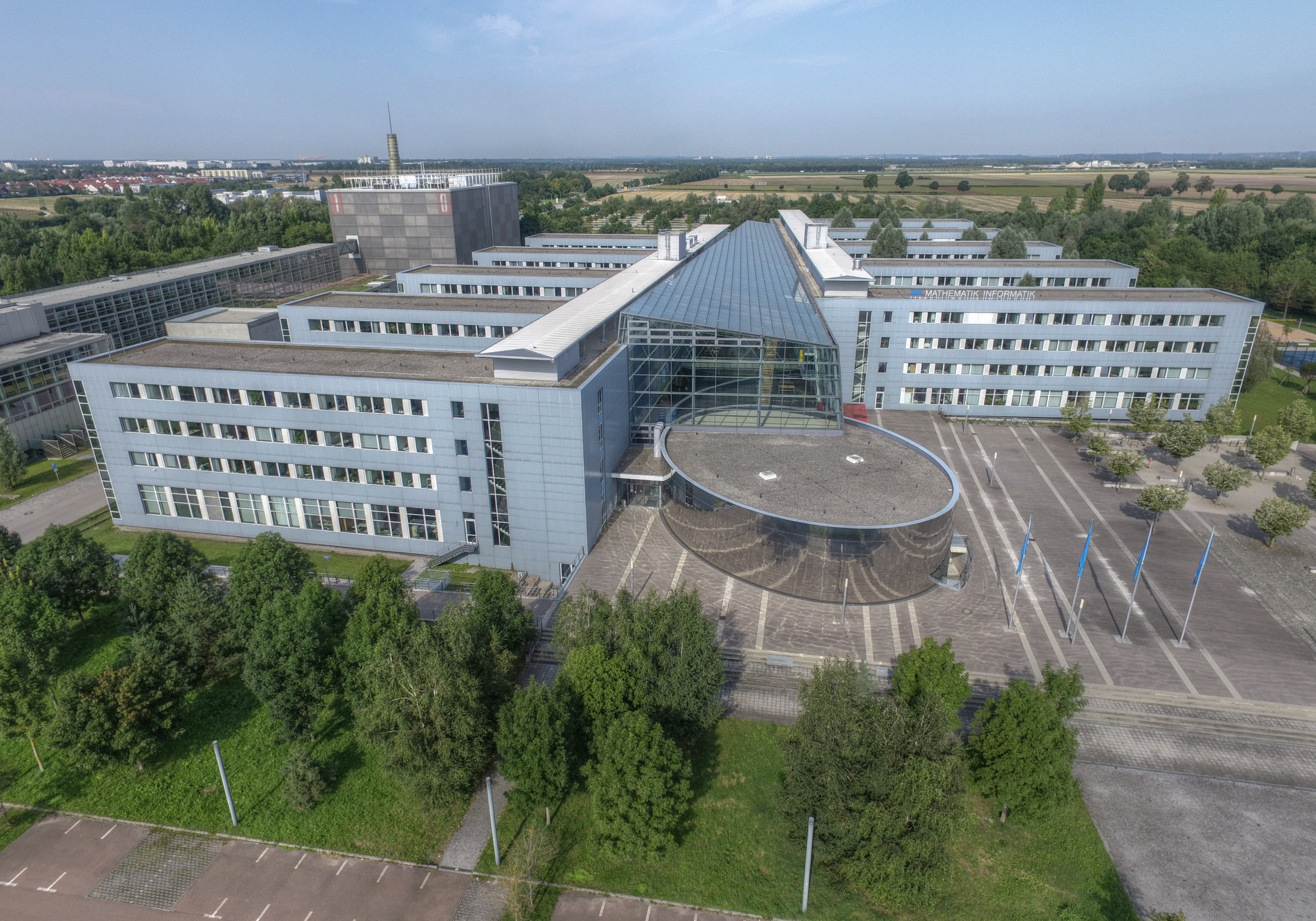 TUM Fakultät Mathematik und Informatik, aerial view